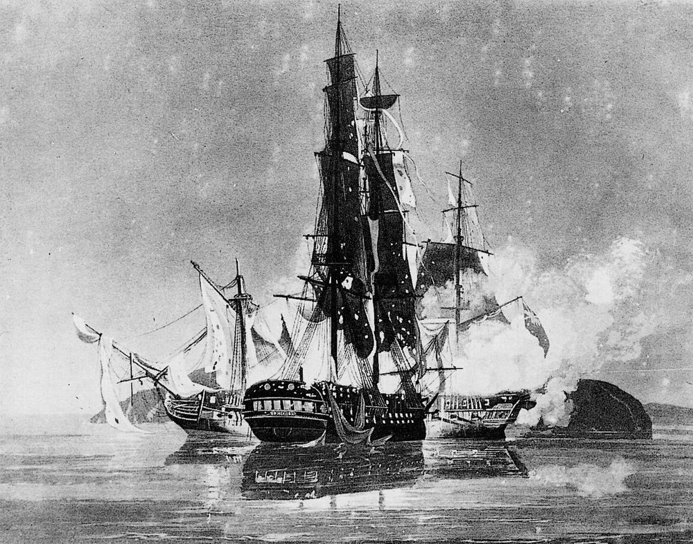 Capture of the Étoile by the Hebrus off Cape La Hogue - 26 March 1814